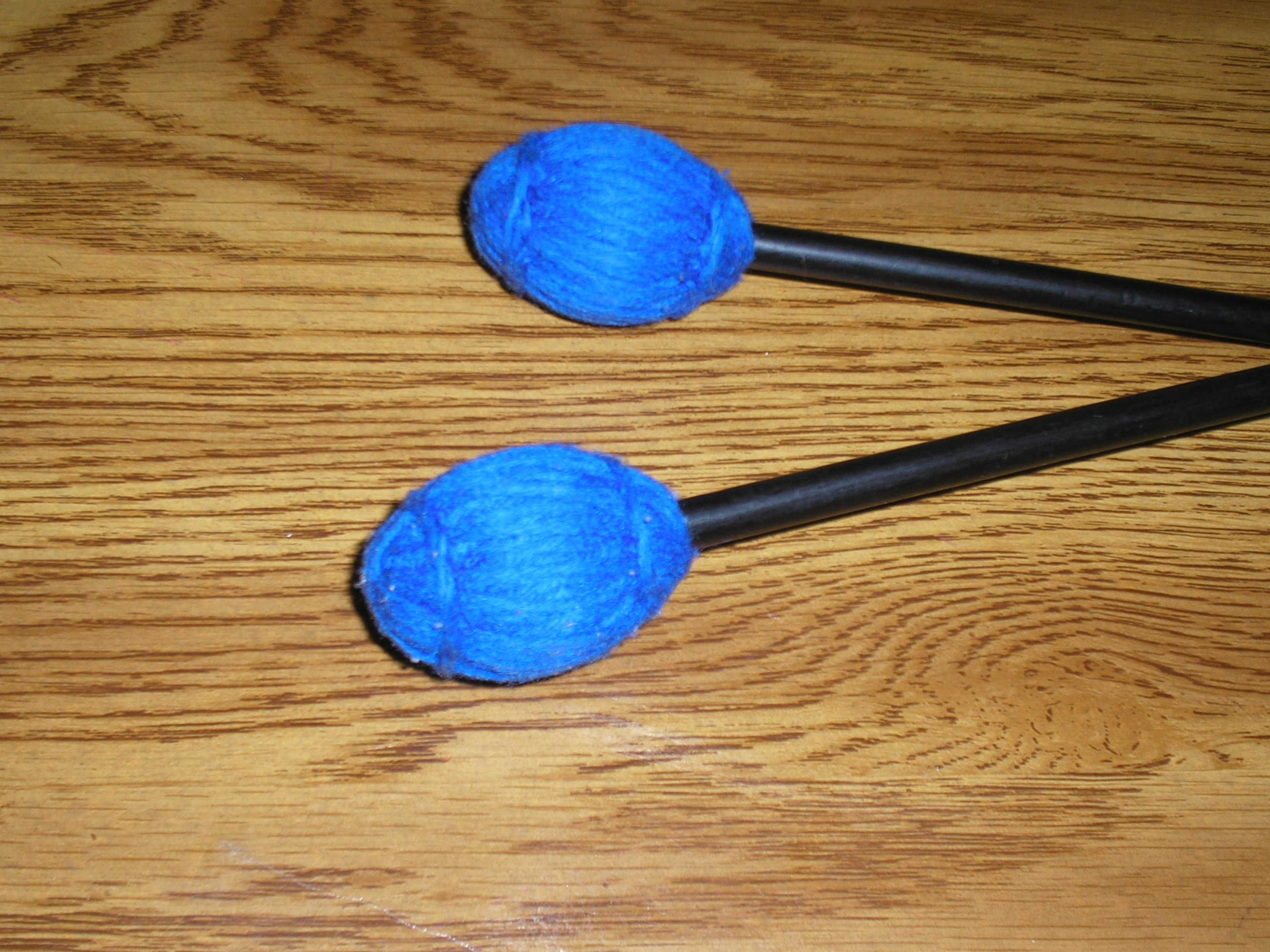 Blue yarn mallets for vibrophones, marimbas, and other keyboard instruments.